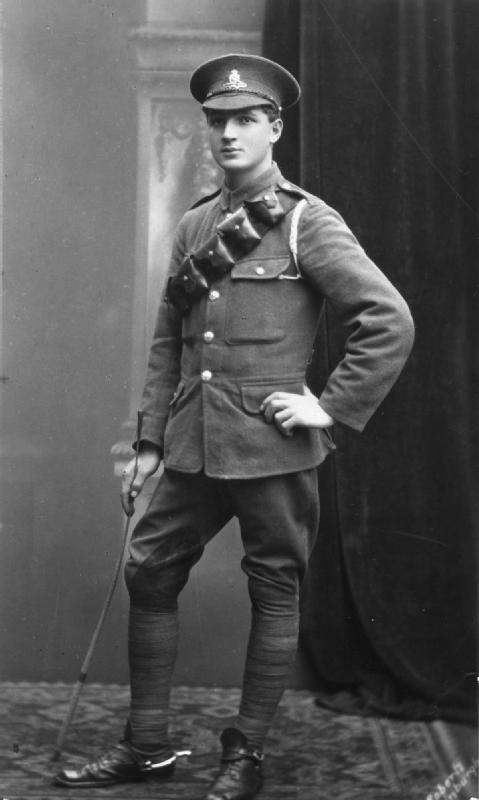 1 (Kent) Heavy Battery, Royal Garrison Artillery Gunner Orr enlisted in June 1915 and was killed at Ypres on 10 September 1917. He is buried at Ypres Reservoir Cemetery. Photograph presented by his sister, Miss E Orr of Glasgow. Faces of the First World War Find out more about this First World War Centenary project at This image is from IWM Collections. The Museum released this image on a custom licence - IWM Non-Commercial license. However where the photograph has no known author, these are public domain under the 70 rule and where they were owned by the Ministry of Information, any other government department or agency, taken by a member of the military during their service or by a photographer commissioned by the services, these are now out of copyright restriction.